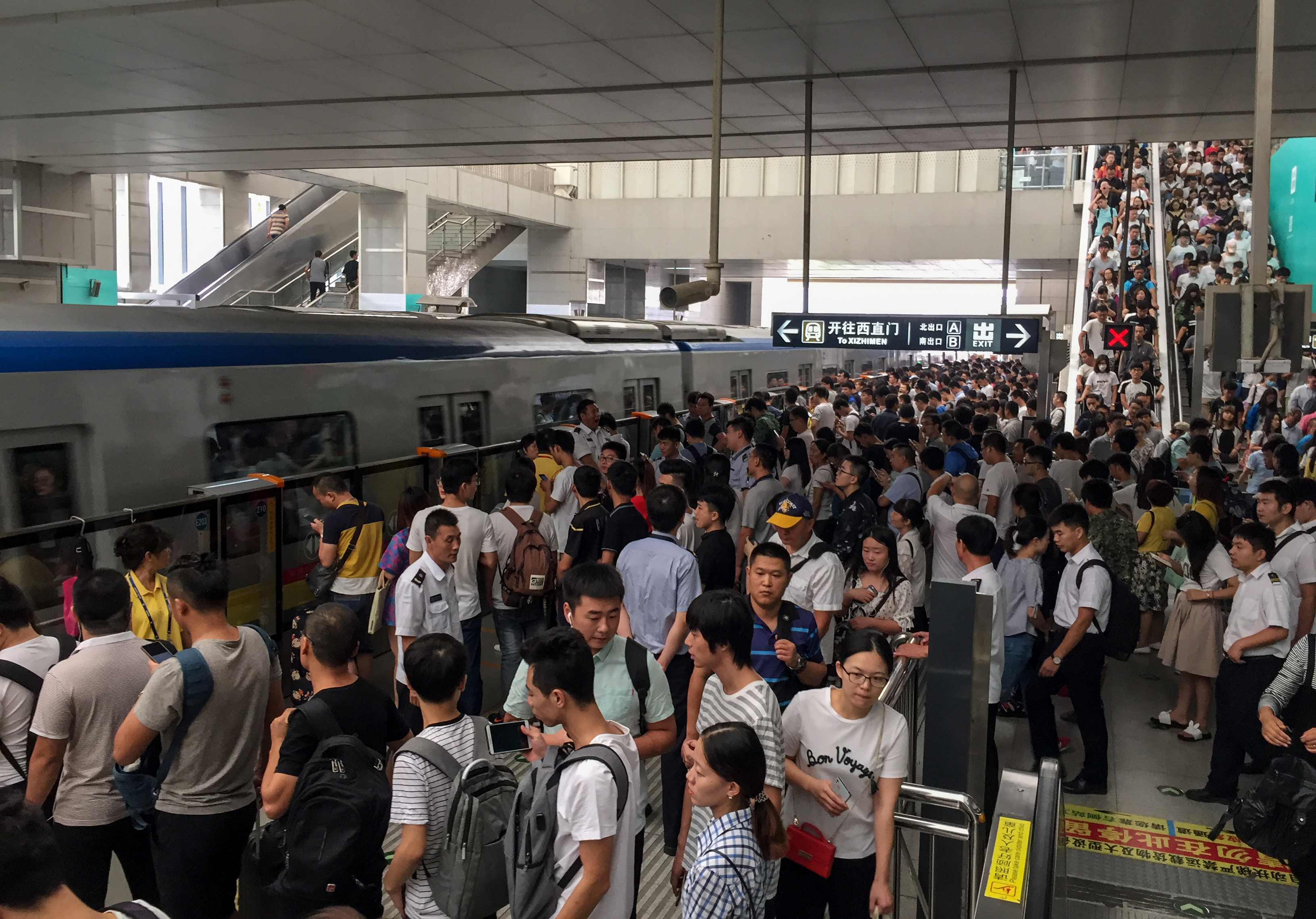 The southbound train is departing... indicating the arrangement of L13 and even the whole Beijing Subway system is still worth negotiating.